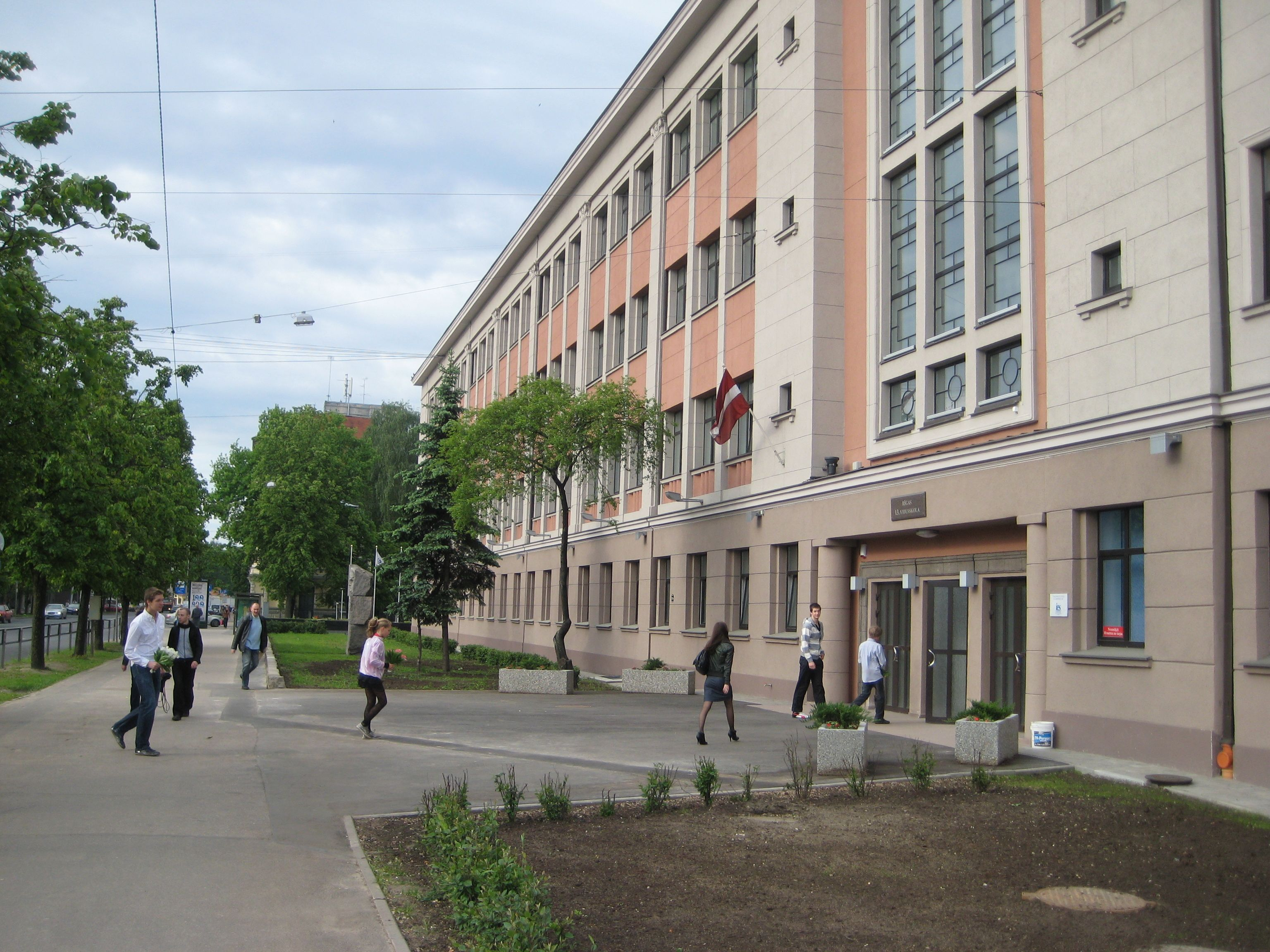 Main entrance into Riga Secondary School No. 13 (from Pulkveža Brieža street)